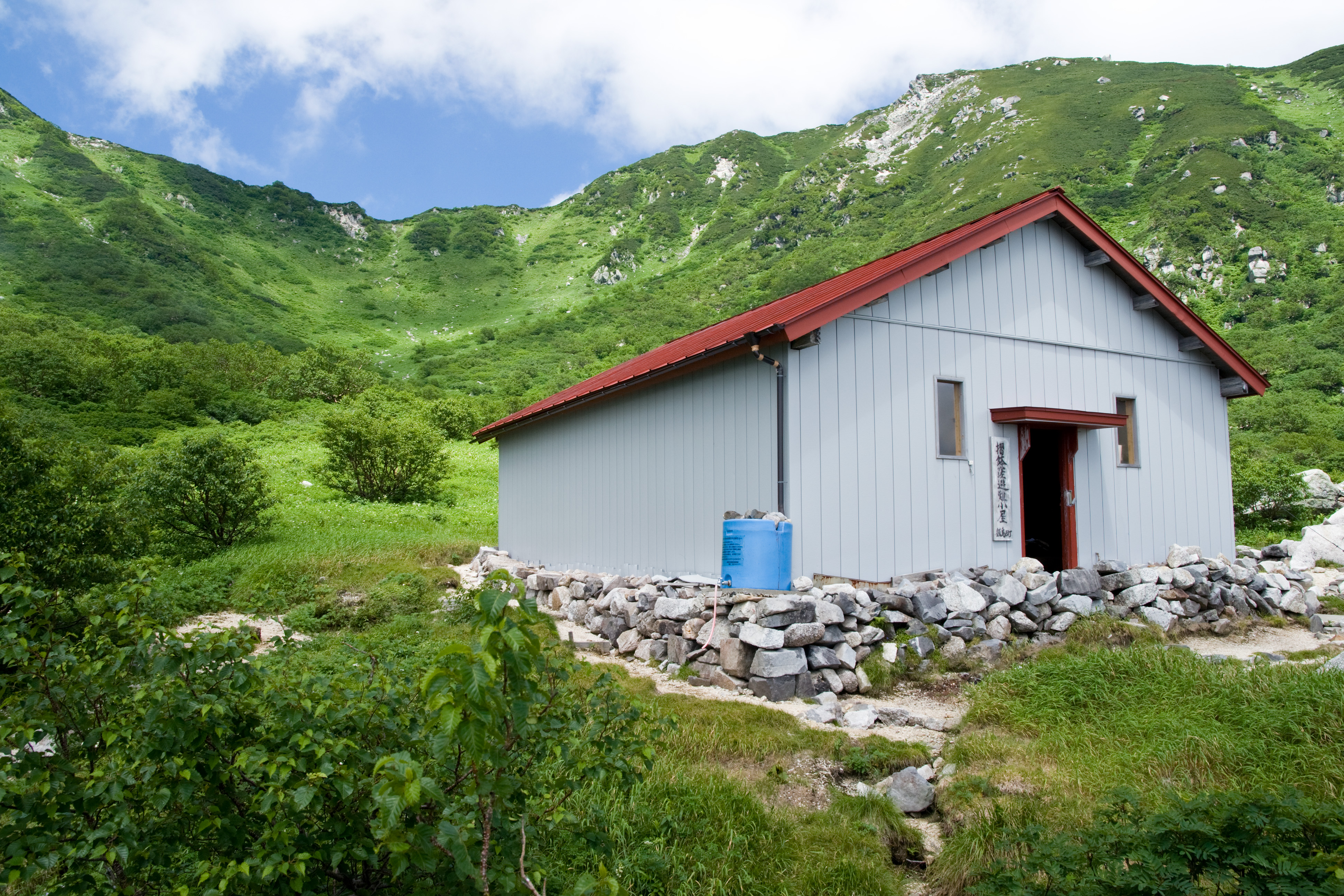 Suribachikubo emergency hut (摺鉢窪避難小屋 Suribachikubo-hinan-goya), Iijima Town, Nagano Pref., Japan.